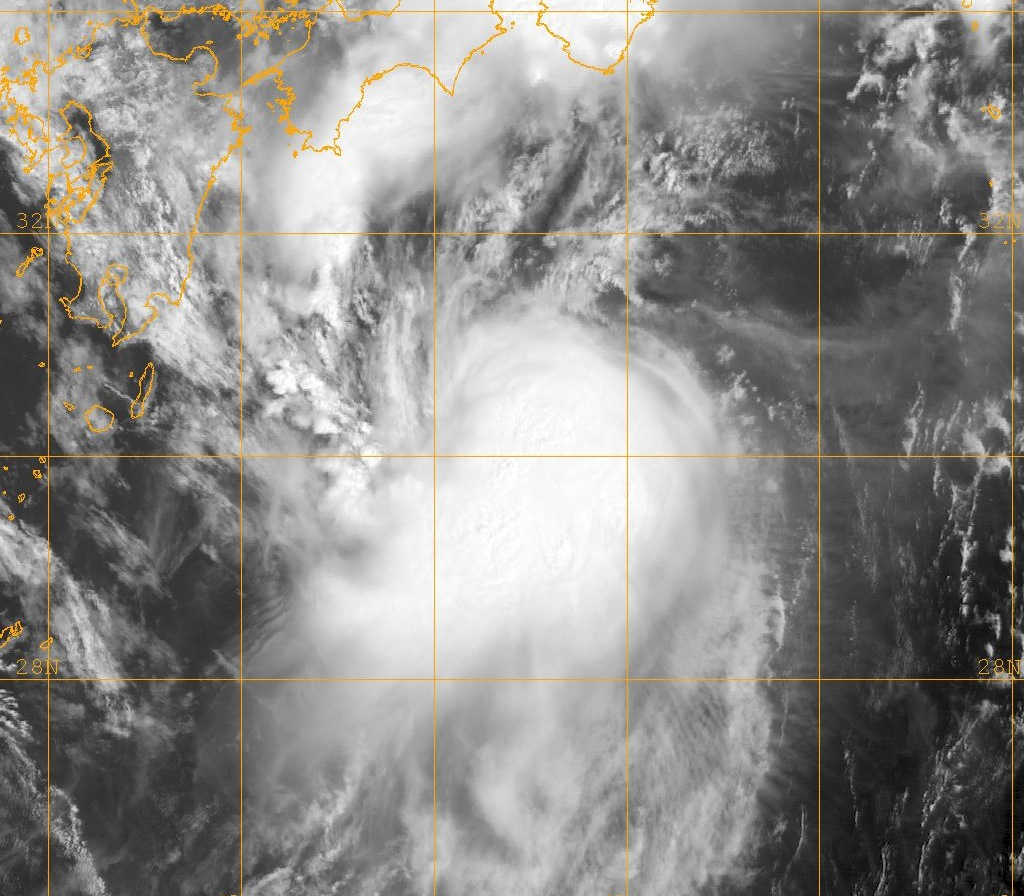 Tropical Storm Etau near peak intensity